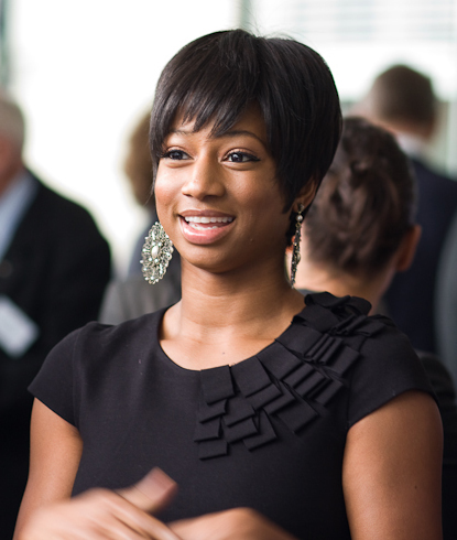 Monique Coleman Visit to NSW Bar Association 2011.